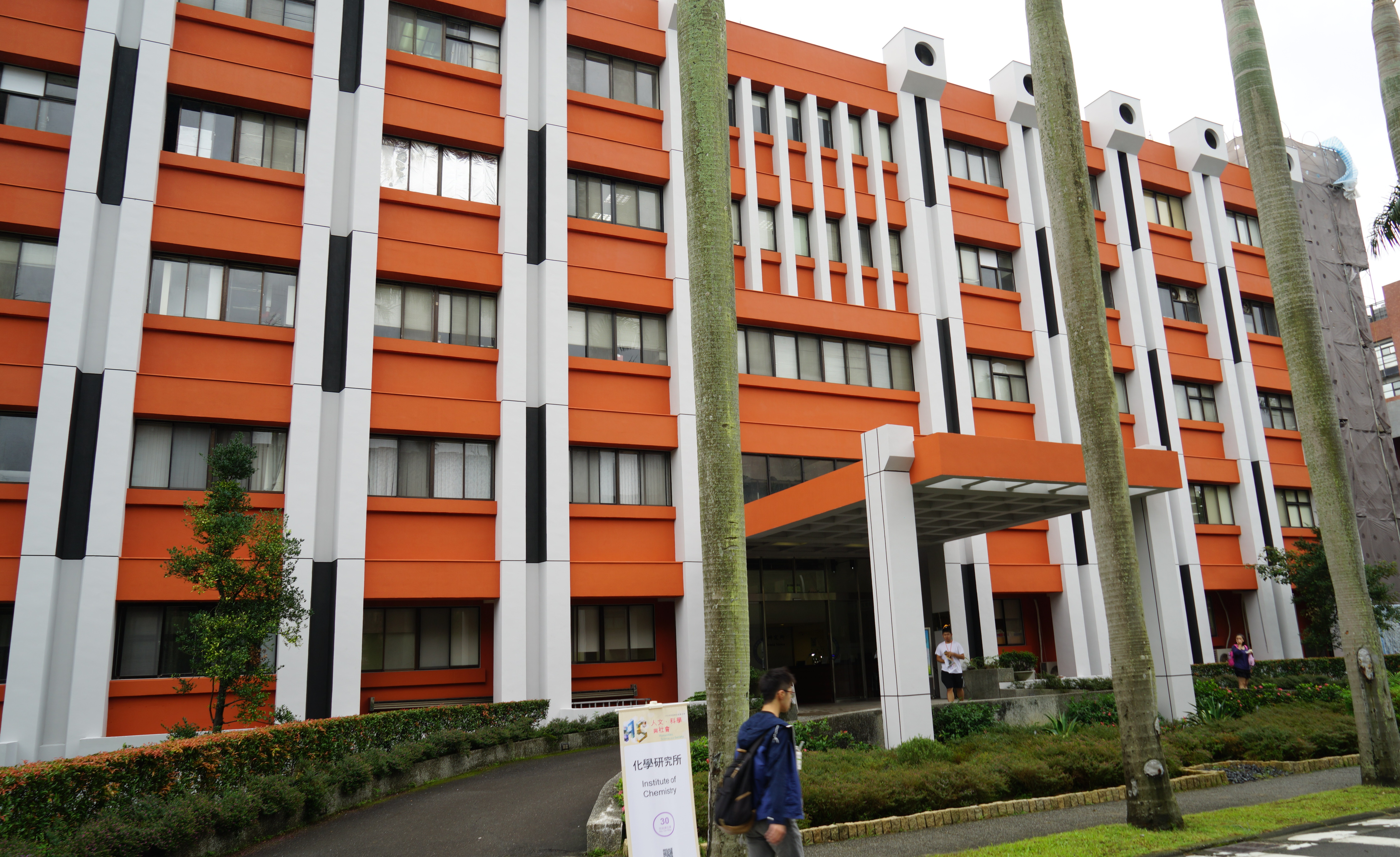 The Institute of Chemistry, Academia Sinica